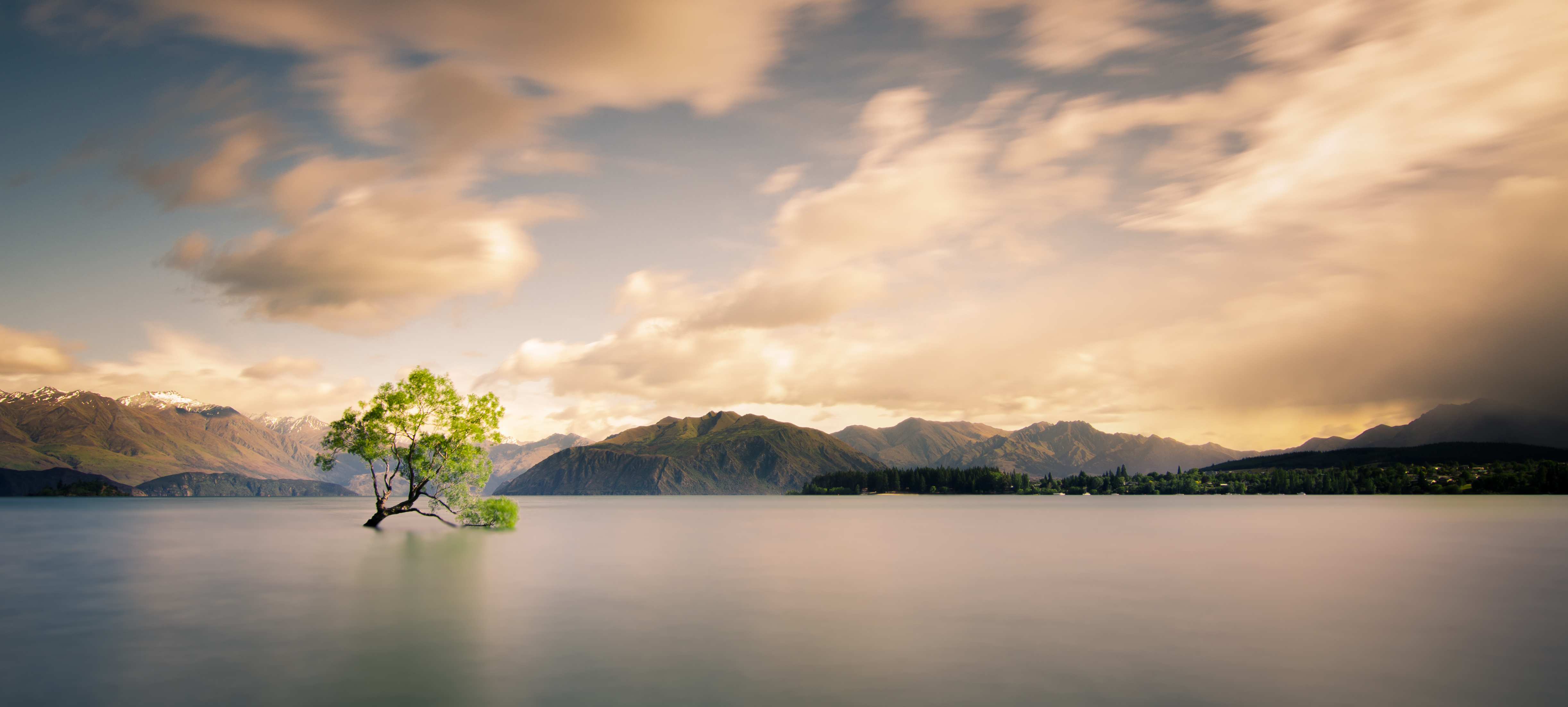 "That Wanaka Tree", a willow growing off the shores of Lake Wanaka, against a mountainous background.